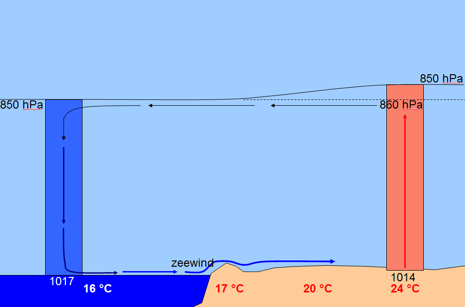 Schematic cross-section of sea wind ciculation.